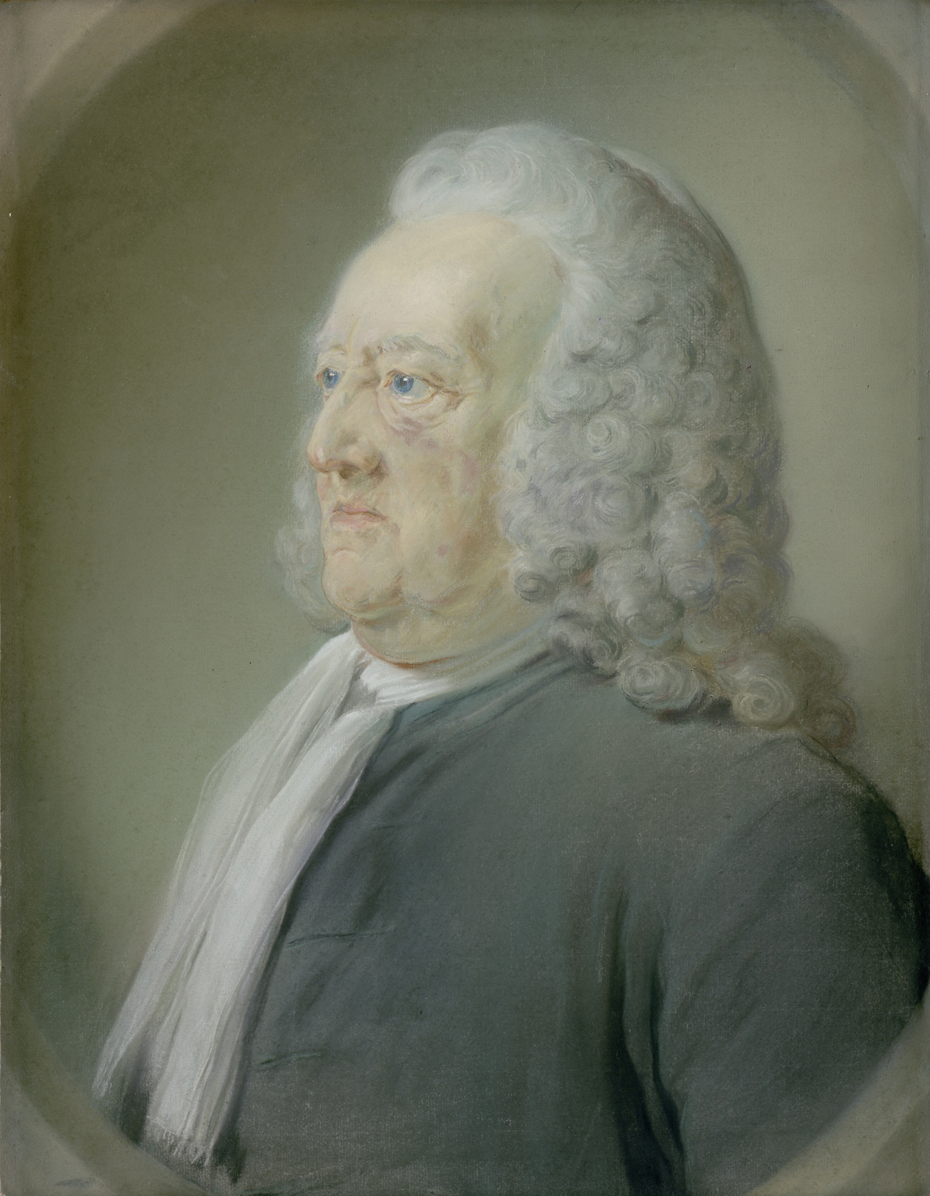 Arent van der Waeyen (1685-1767), merchant and counsel to the town council of Amsterdam. Pendant of File:Jean-Baptiste Perronneau 003.jpg